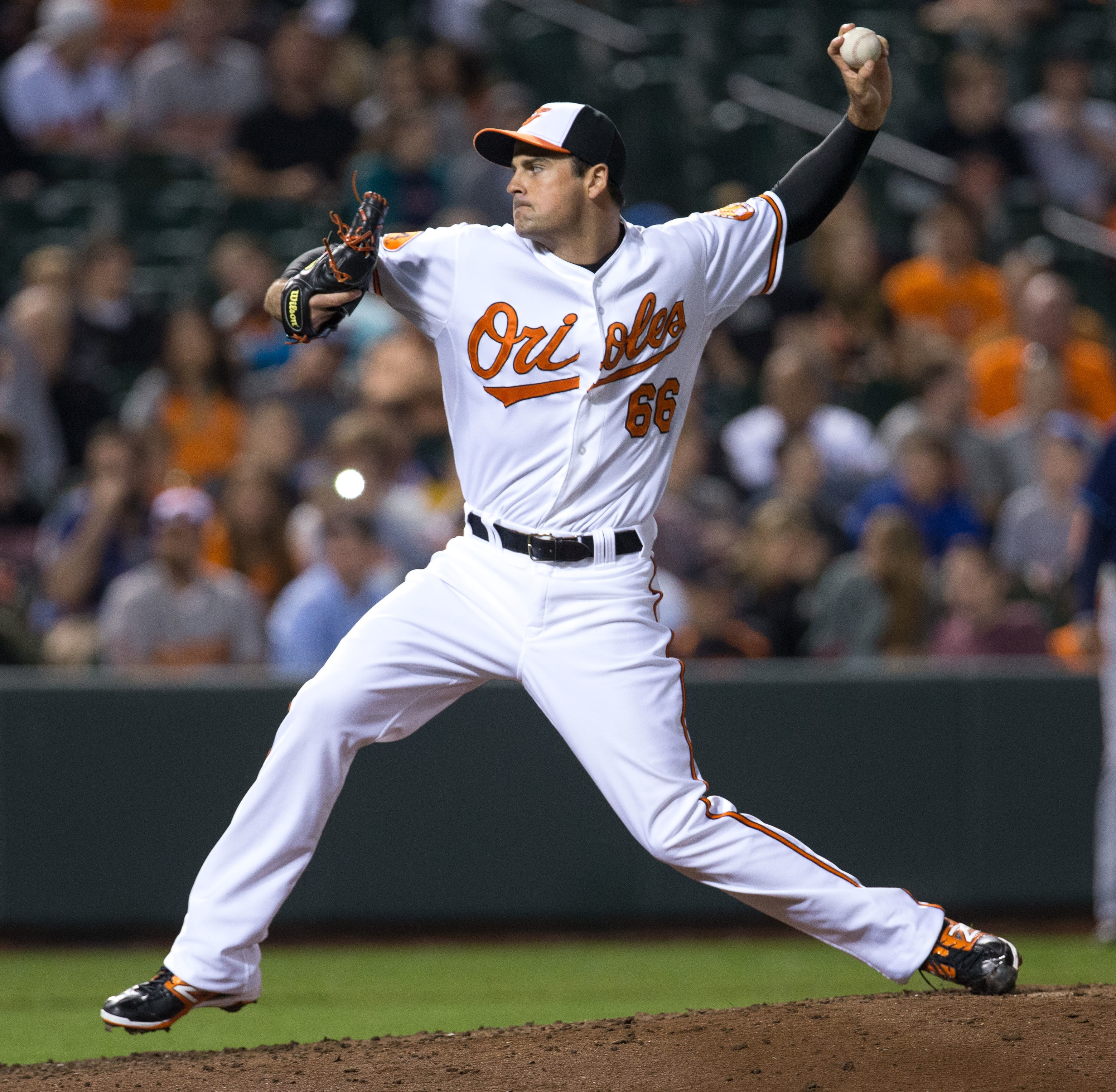 Baltimore Orioles pitcher T. J. McFarland – Tampa Bay Rays at Baltimore Orioles April 17, 2013